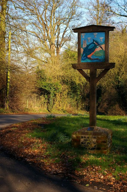 Sampford Sign. Little Sampford Village Sign near 693721